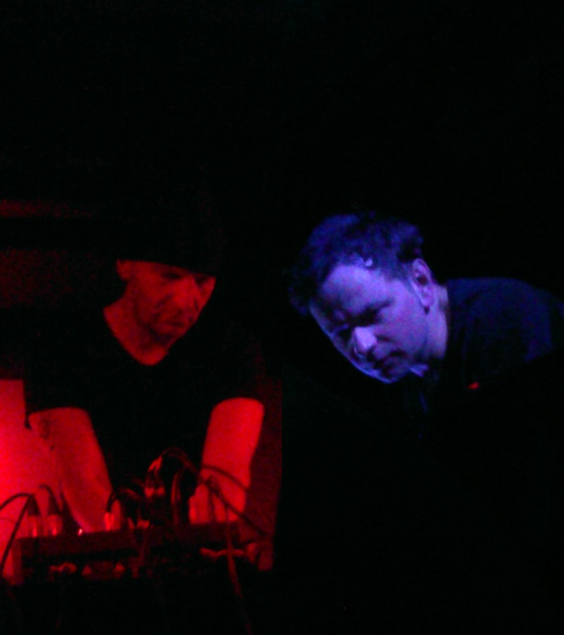 Helge Siehl of 1000schøen and Stefan Knappe of Troum performing in Saint Petersburg.